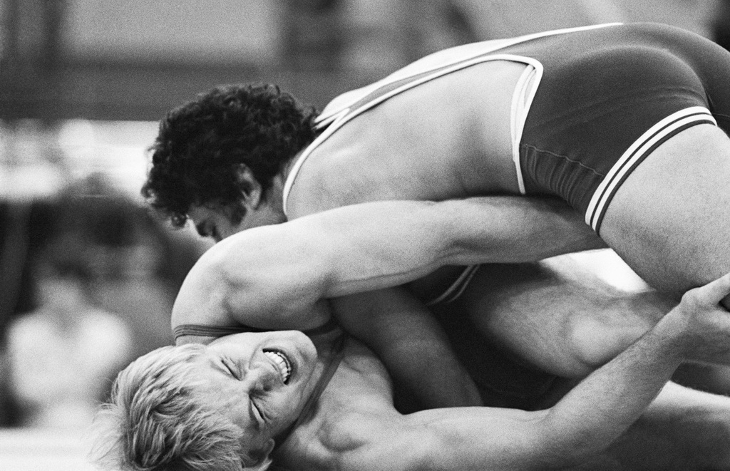 “Wrestlers Slavko Chervenkov and Julius Strnisko during their match”. A men's Freestyle Wrestling 100 kg match at the 1980 Summer Olympics. Silver medal winner Slavko Chervenkov of Bulgaria (up) and bronze medal winner Julius Strnisko of Czechoslovakia. XXII Summer Olympics. CSKA Sports Complex in Moscow.